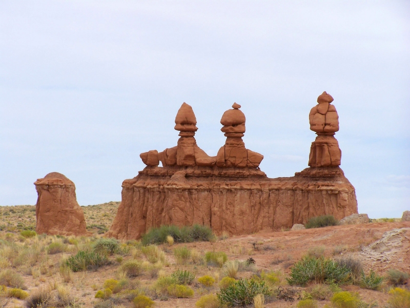 Goblin Valley State Park